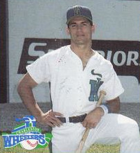 Professional baseball player Steve Owens